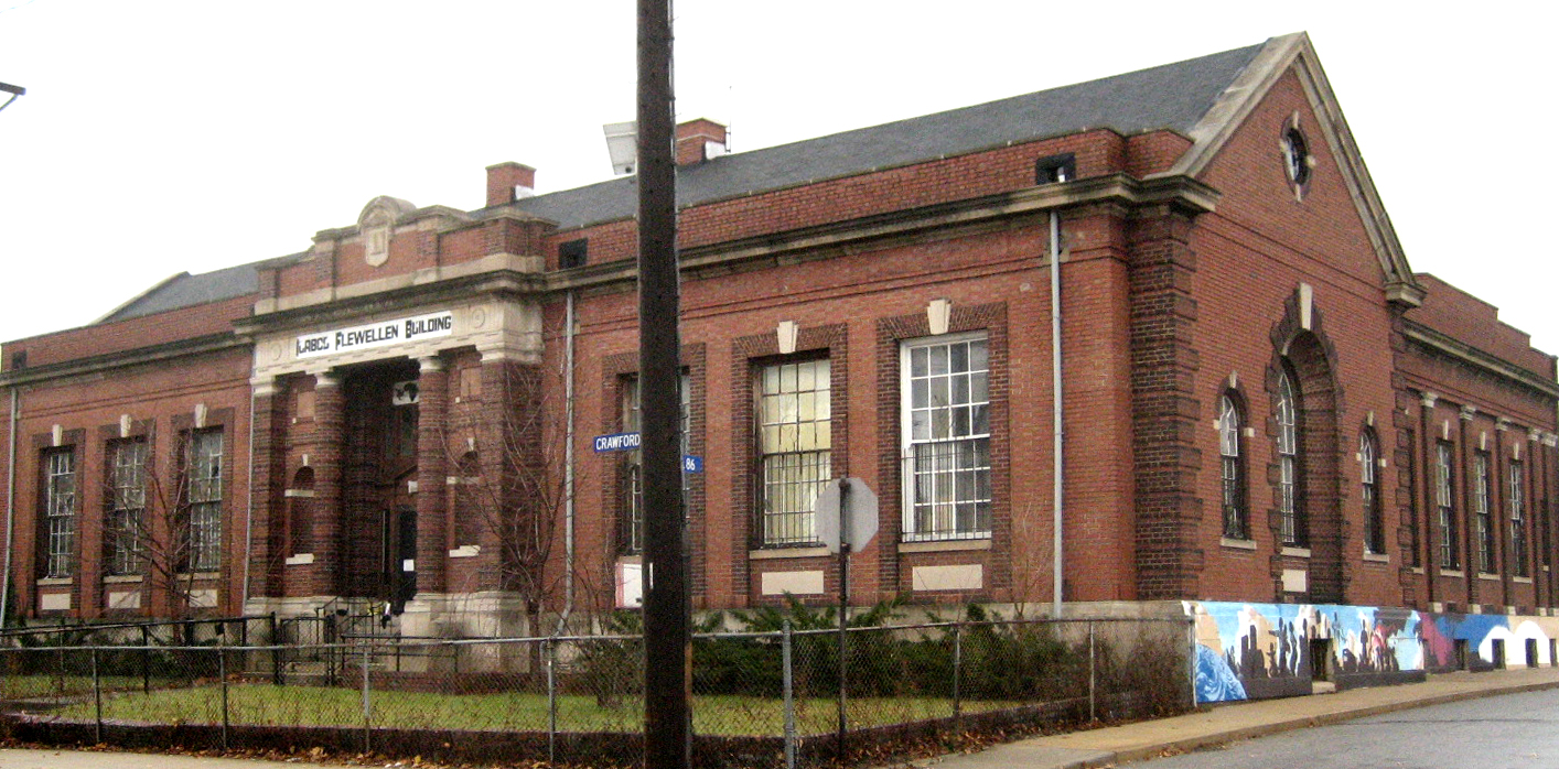 Depicted place: The African American Museum in Cleveland